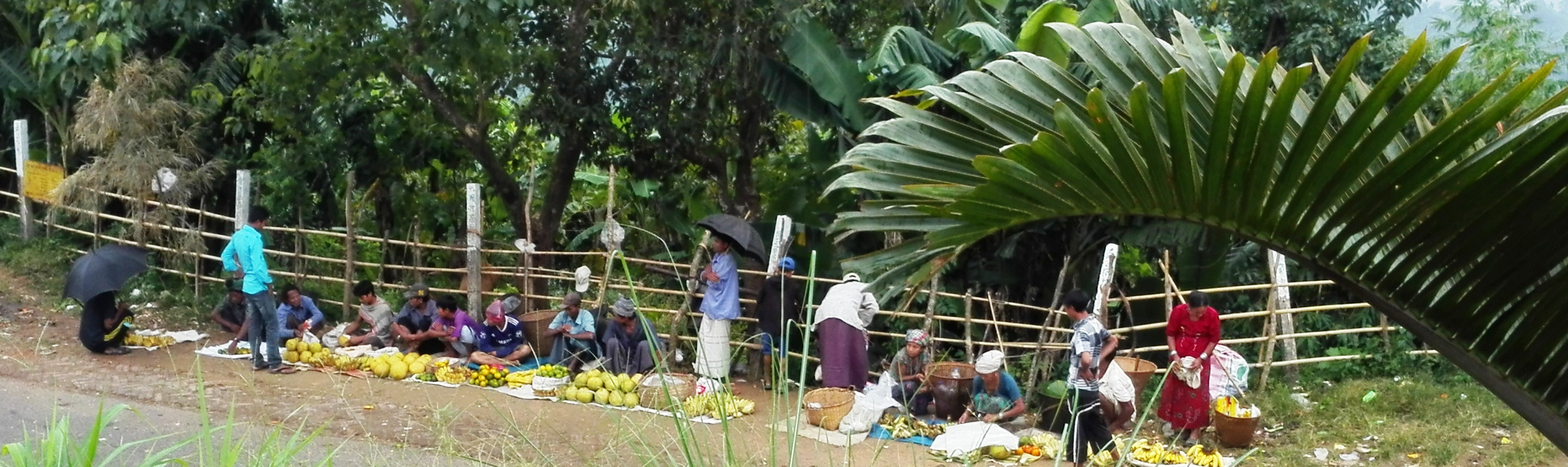 fruit sellers at nilgiri hill, bandarban